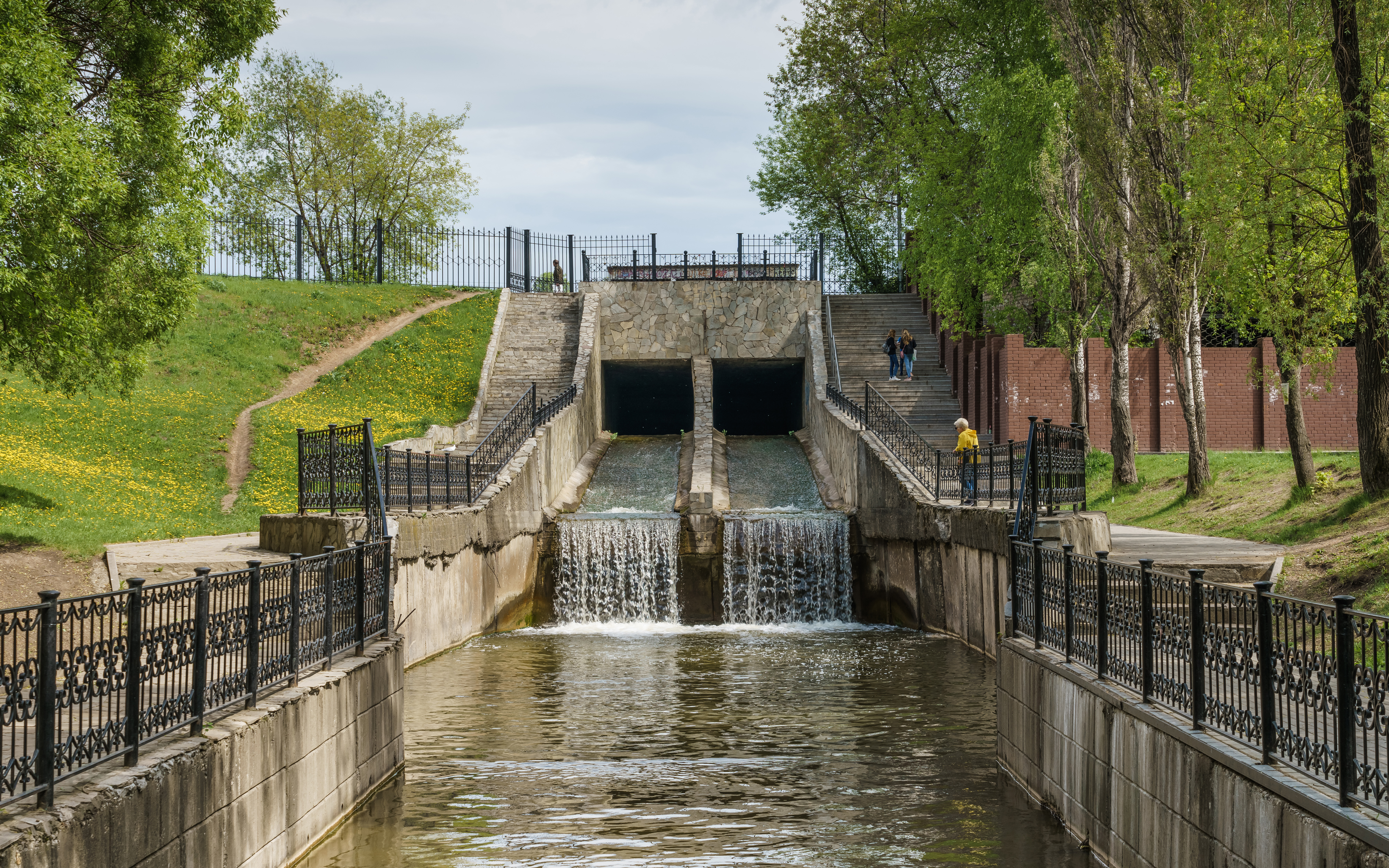 Urban park called Paradise Garden in Perm, Russia